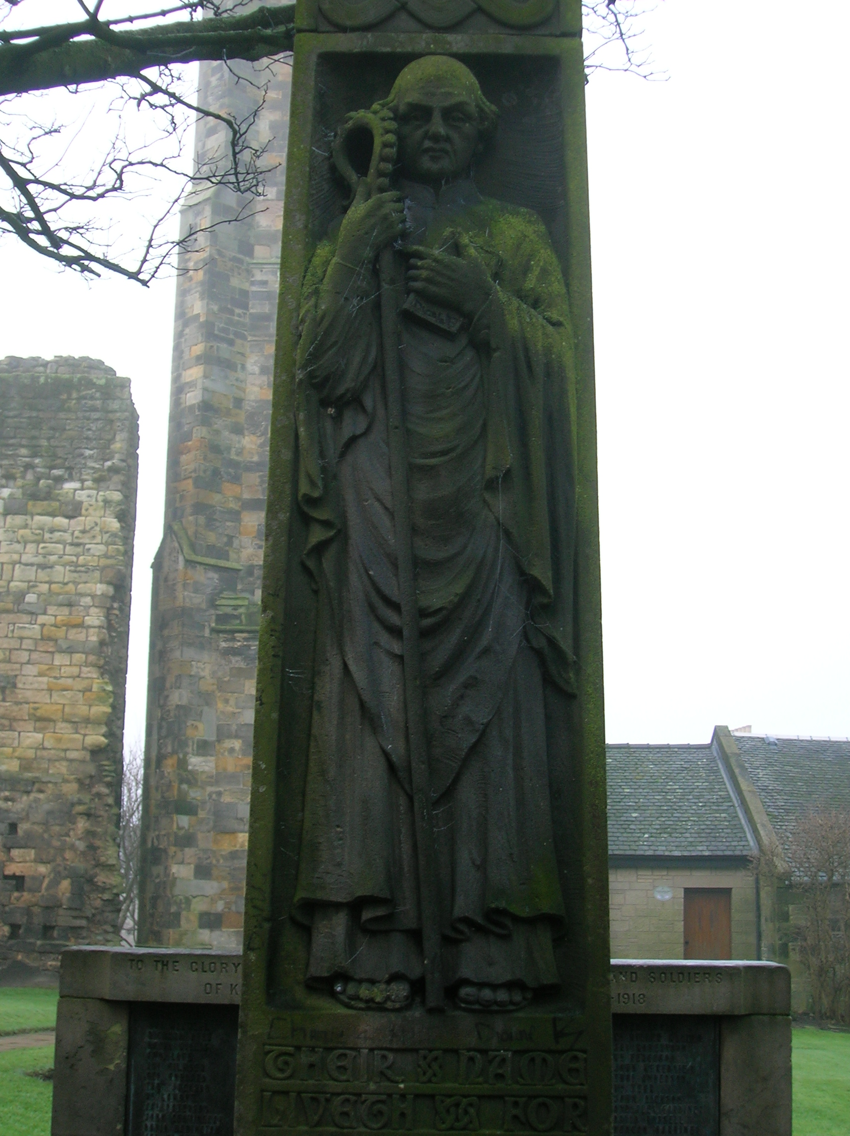 Saint Winning, War Memorial, Kilwinning, North Ayrshire, Scotland